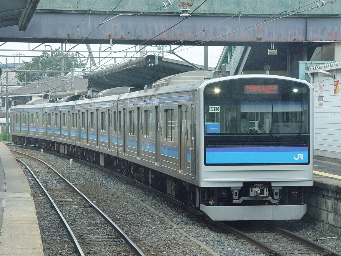 A Senseki Line 205-3100 series EMU at Tagajo Station on a local service to Aoba-dori